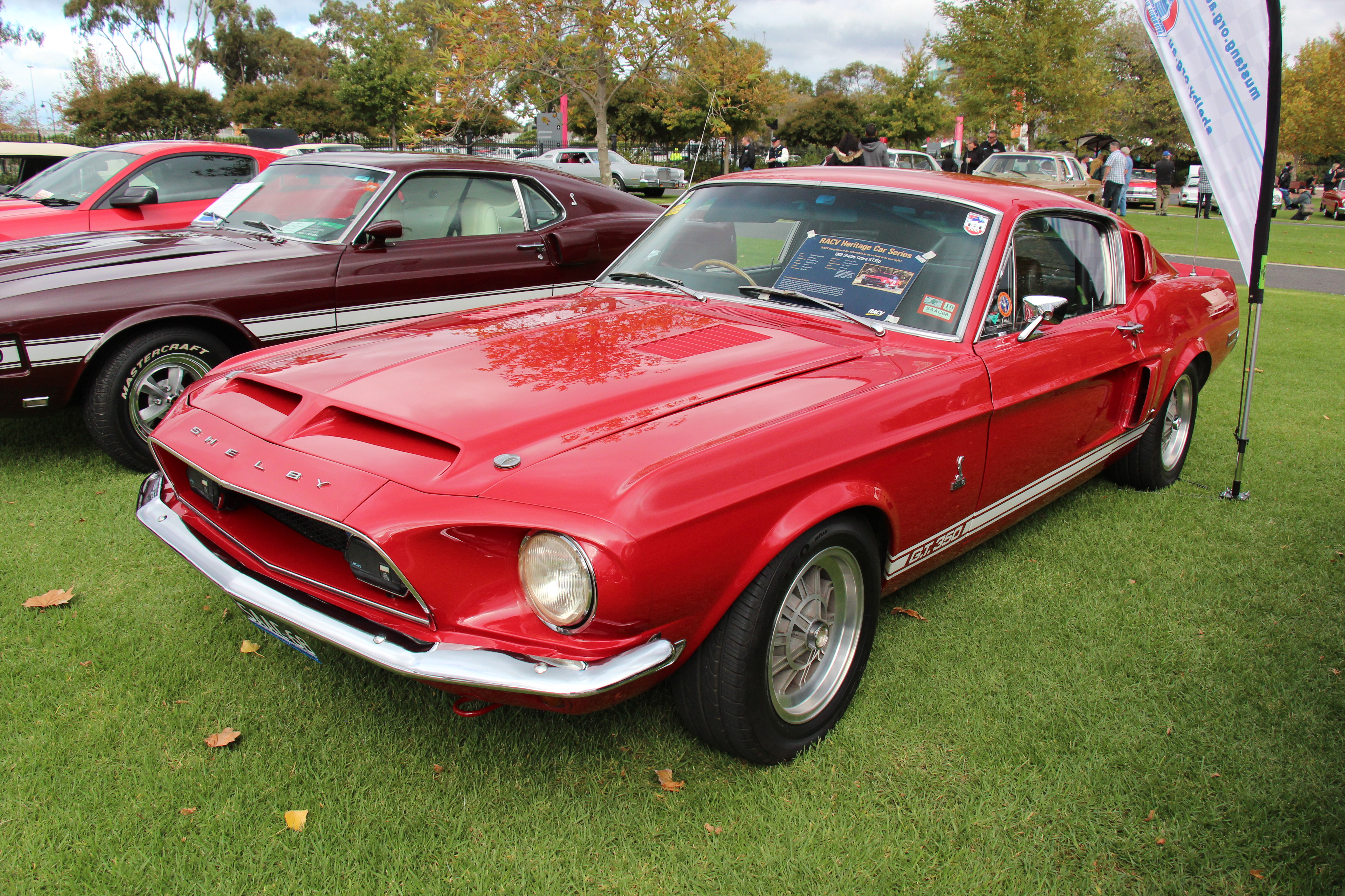 Candyapple Red. Fords Pony car, the Mustang was first introduced in April, 1964. The engine bay enlarged in 1967, to fit a big block engine. 1968 was a mild facelift on the 67 car; now with front and rear side markers, the grilles in the quarter behind the door were gone, the bars from the Pony 'Corral' were removed and the steering wheel was changed to an energy absorbing one. Still available in Fastback, Hardtop or Convertible. Shelby American built performance versions of the Mustang. For 1968, the were called the Shelby Cobras. For the first time they used cobra snake badges and a Shelby convertible was also available (previously all fastbacks). The 1968 Shelby hood was restyled, the scoops closer to the front than in 1967. Driving lights were now rectangular. Thunderbird tail lights that flashed sequentially like a chaser light were used. Inside there was a padded roll bar with inertia-reel shoulder harness attached and woodgrain dash and door trims. Models available were; The GT350 with 250hp 302 cu in V8, 1657 made. The GT500 with 360hp 428 Police Interceptor engine, 1542 made. The GT500KR (King of the Road), 410hp 428 Cobra Jet engine the Cobra Jet, 1251 made.